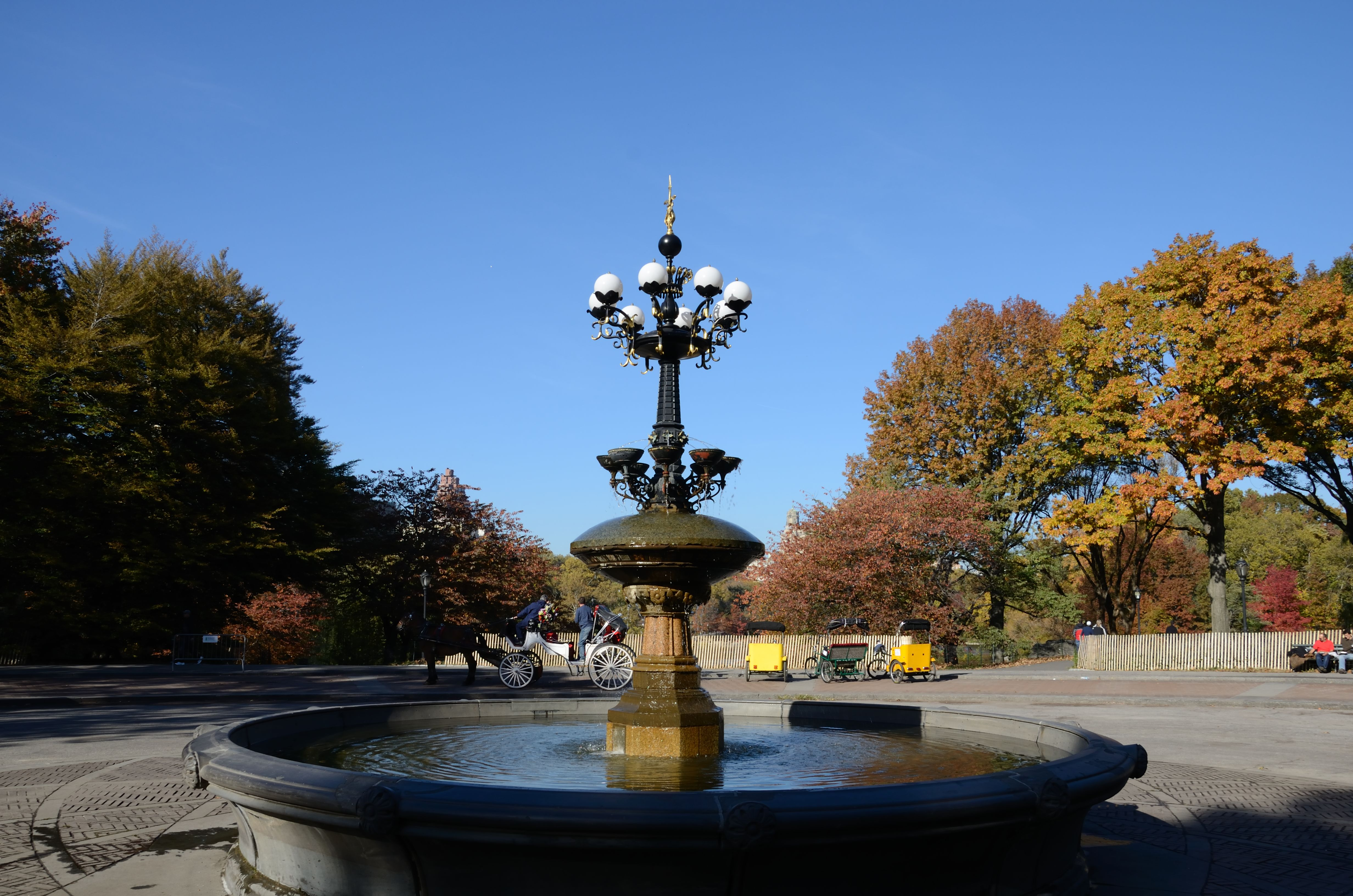 Cherry Hill Fountain designed by Jacob Wrey Mould in the 19th century. The this 14-foot high granite dome and sculpted bluestone basin inset with Minton tiles is crowned with eight frosted round glass lamps and a golden spire.